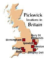 The Pickwick Papers: Map of Britain showing the localities visited in the novel.